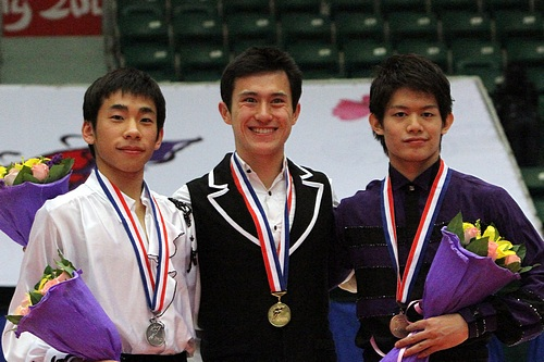 The men's podium at the 2010-2011 Grand Prix Final. From left: Nobunari Oda (2nd), Patrick Chan (1st), Takahiko Kozuka (3rd).